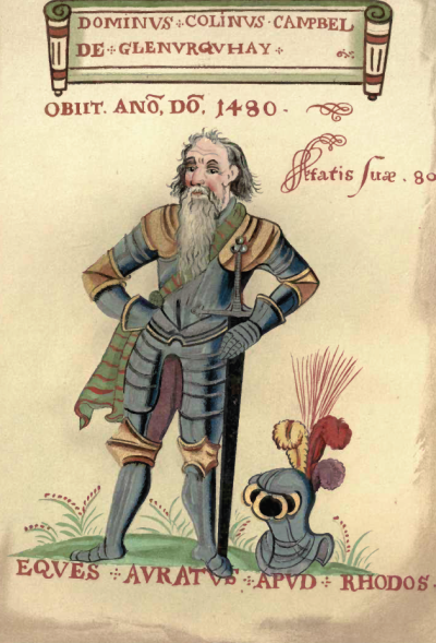 A sixteenth or seventeenth century illustration, following page 10 of the Black Book of Taymouth, depicting Colin Campbell of Glenorchy (died 1480). As the caption notes, Colin fought on Rhodes against the Ottomans. He also served as an ambassador from James III of Scotland to the papacy.